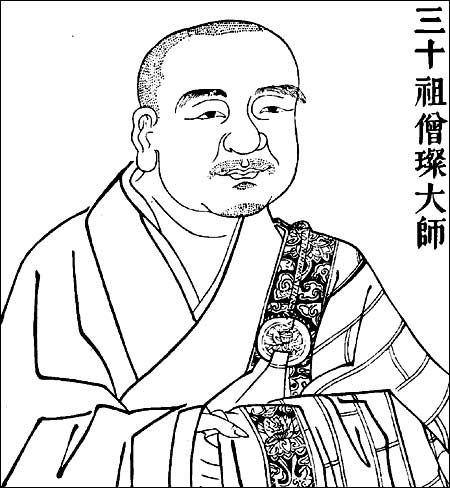 Old picture of the III Zen Patriarch